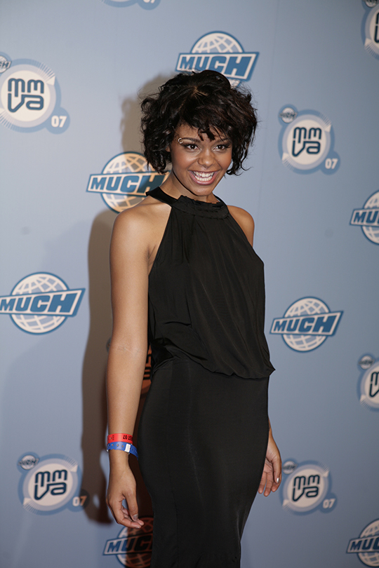 Fefe Dobson was an attendee at the 2007 MuchMusic Video Awards, held the night of Sunday, June 17, 2007 in Toronto, Ontario, Canada.